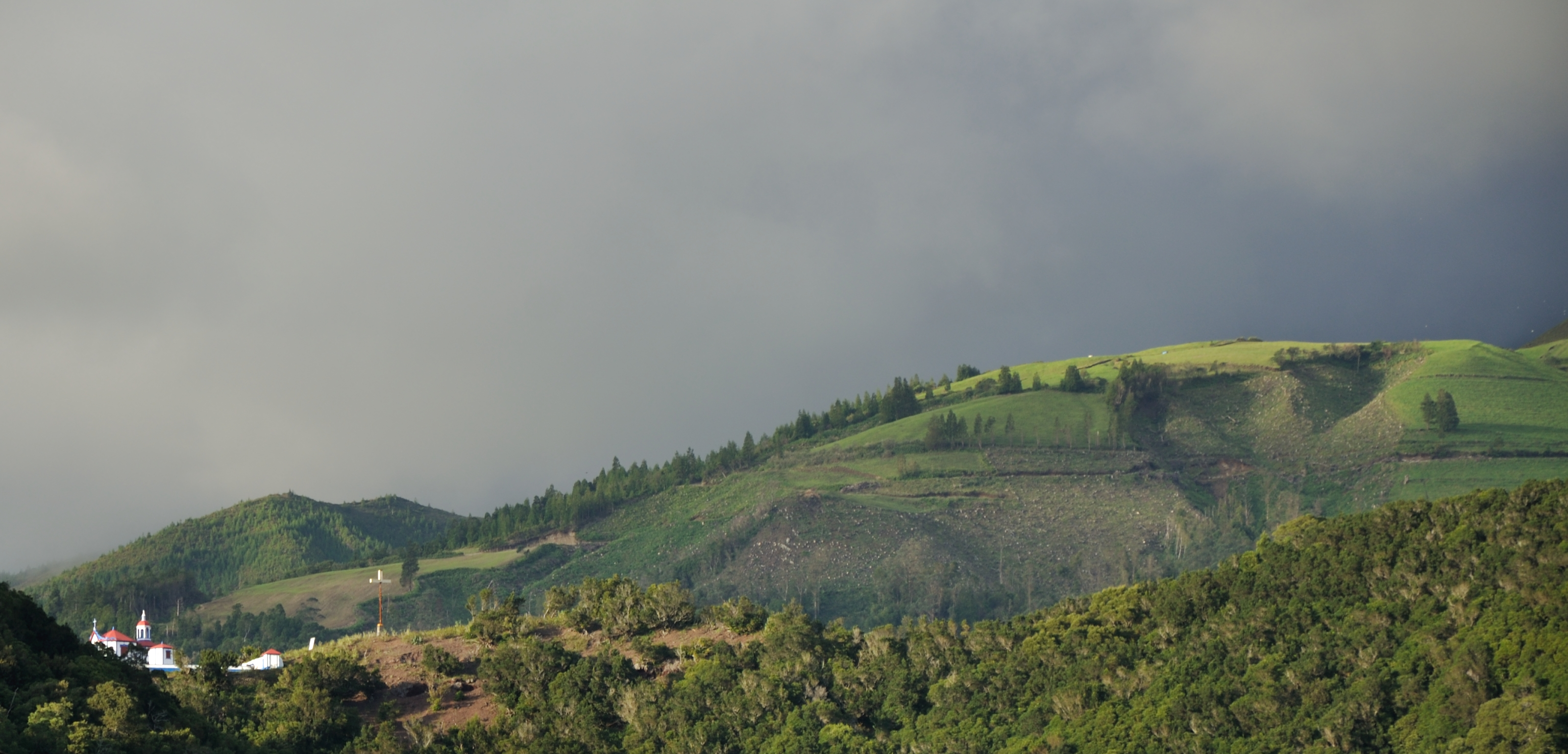 Portugal, stroll through Água de Pau (Azores)